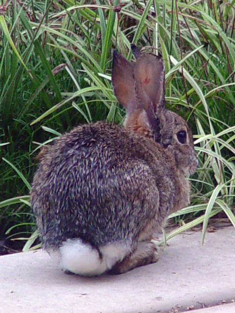 Desert Cottontail (Sylvilagus audubonii) seen from behind, so that its white "cottontail" is easily visible.